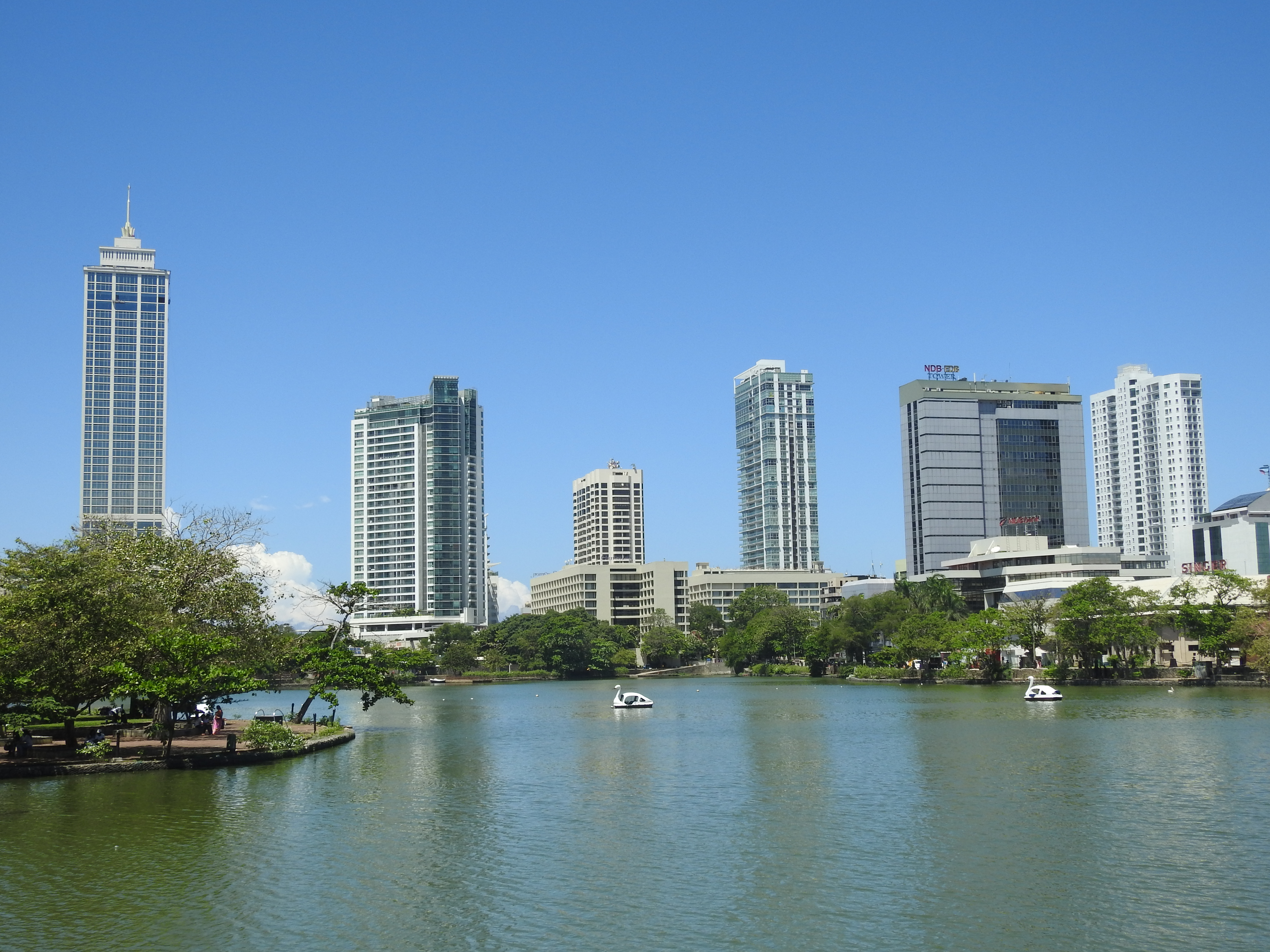 Photos of current/future skyscrapers (and its surroundings) in Colombo, taken by User:Rehman and User:Azeez as part of a photowalk project by Wikimedia Community User Group Sri Lanka. The photowalk covered most of the tallest structures in Colombo that are either completed or under construction. Further information on the subject(s) of the photograph can be found in the category/ies of this file.